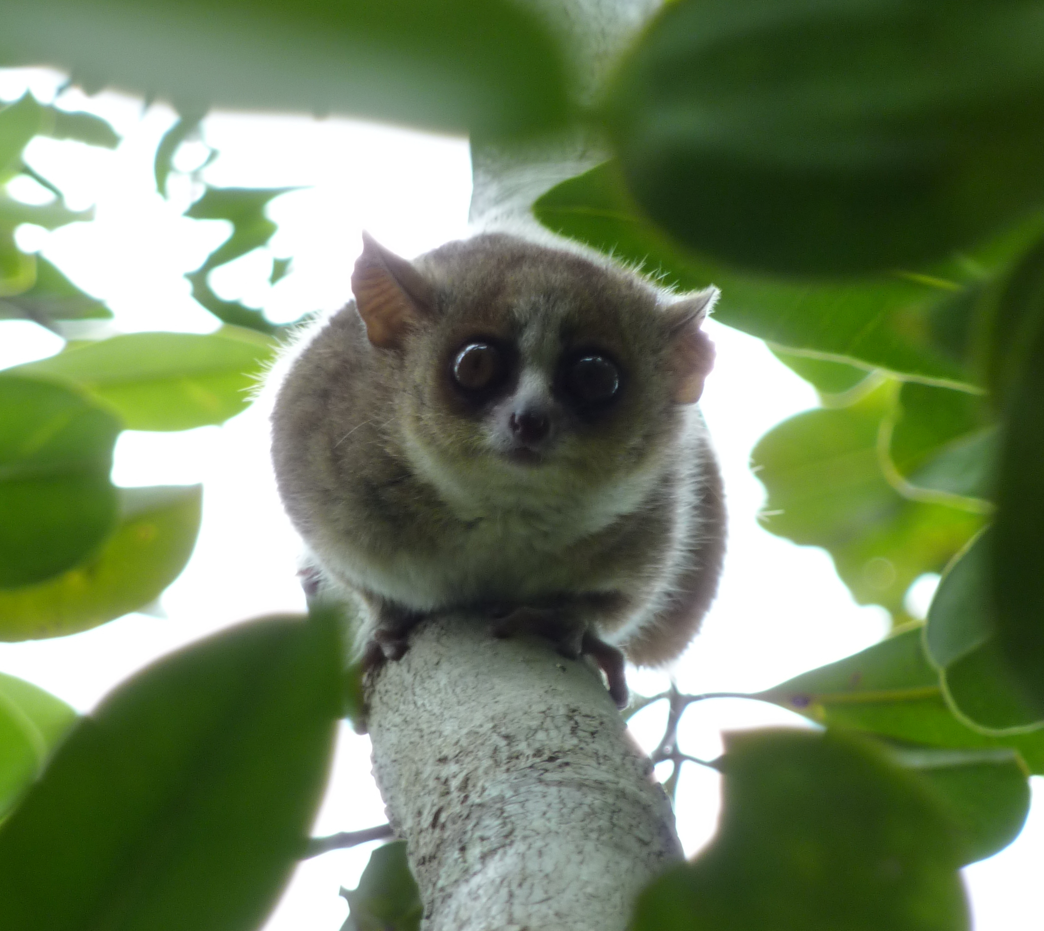 Brown Mouse Lemur (Microcebus rufus) at Petriky in Madagascar